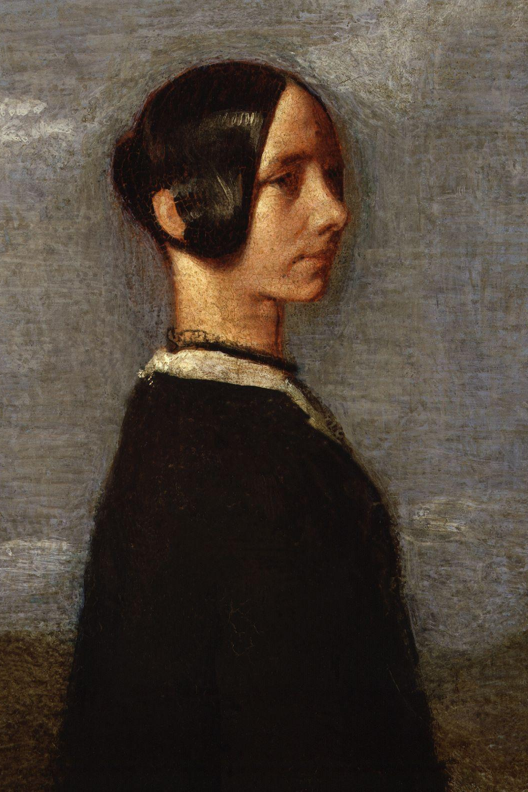 Jane Baillie Carlyle (née Welsh), by Samuel Laurence (died 1884), given to the National Portrait Gallery, London in 1898.